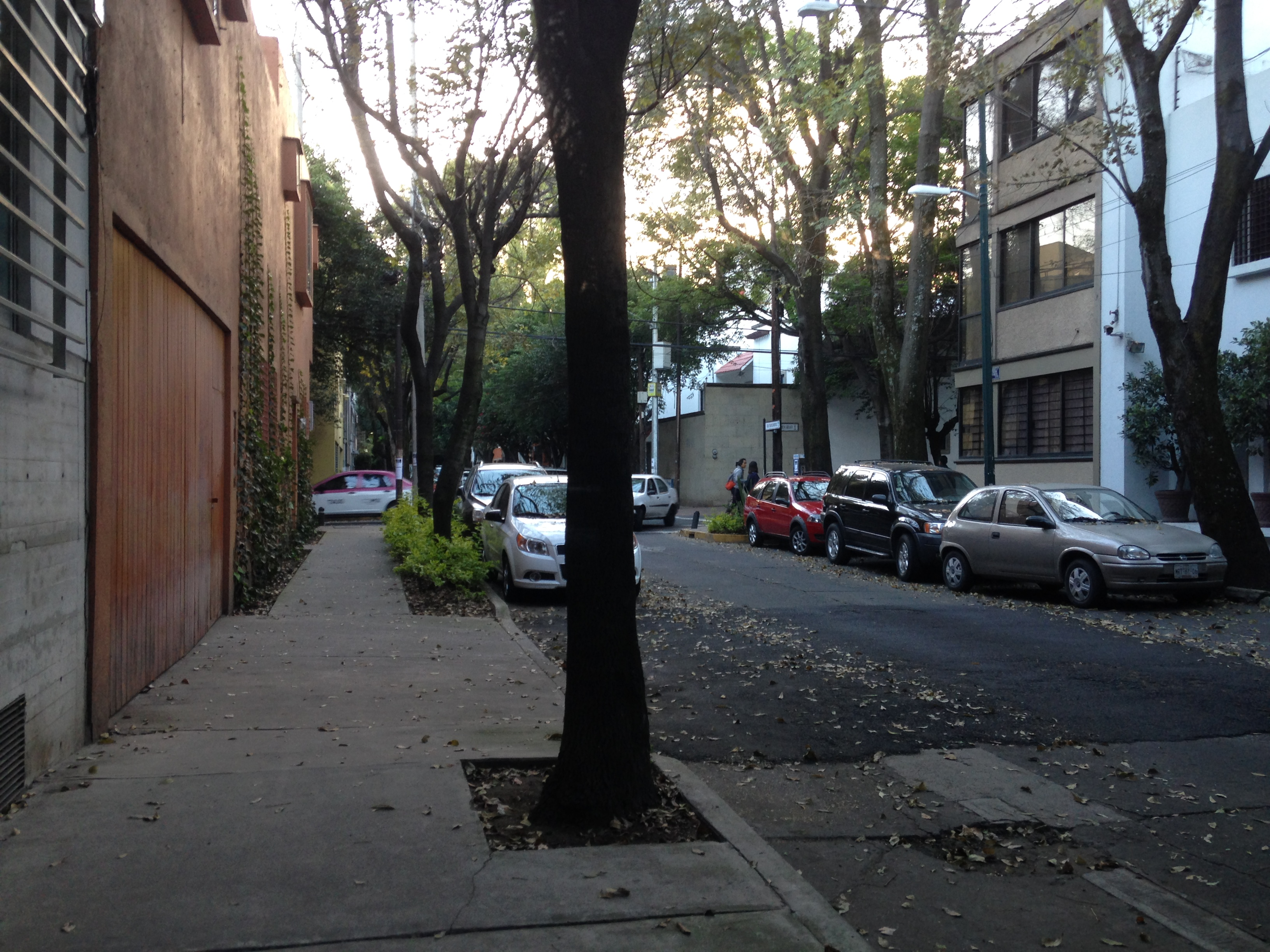 Contemporary Mexican style buildings in San Miguel Chapultepec neighbourhood, at west Mexico City, 2016.